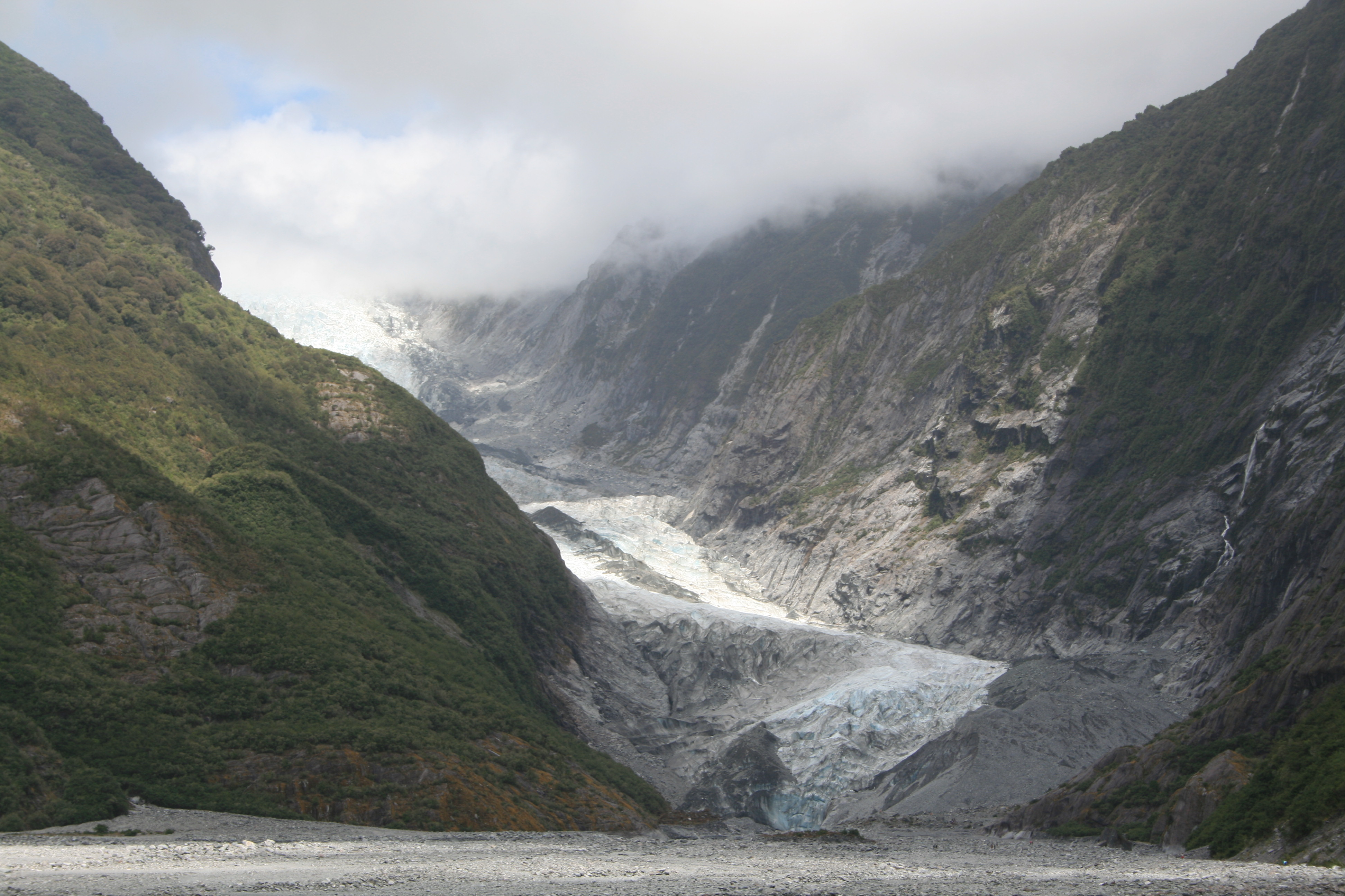 Franz Josef Glacier, New Zealand